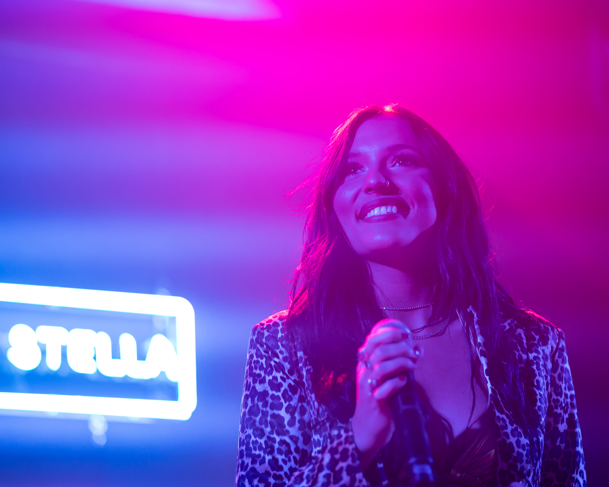 Lennon Stella performing live at The Troubadour in Los Angeles, California, on Wednesday, November 28, 2018. Shot for Ones To Watch. This was my first time using the "Silent Shooting" feature on the Nikon Z6 mirrorless full-frame camera, and I experienced the dreaded "banding" issue.